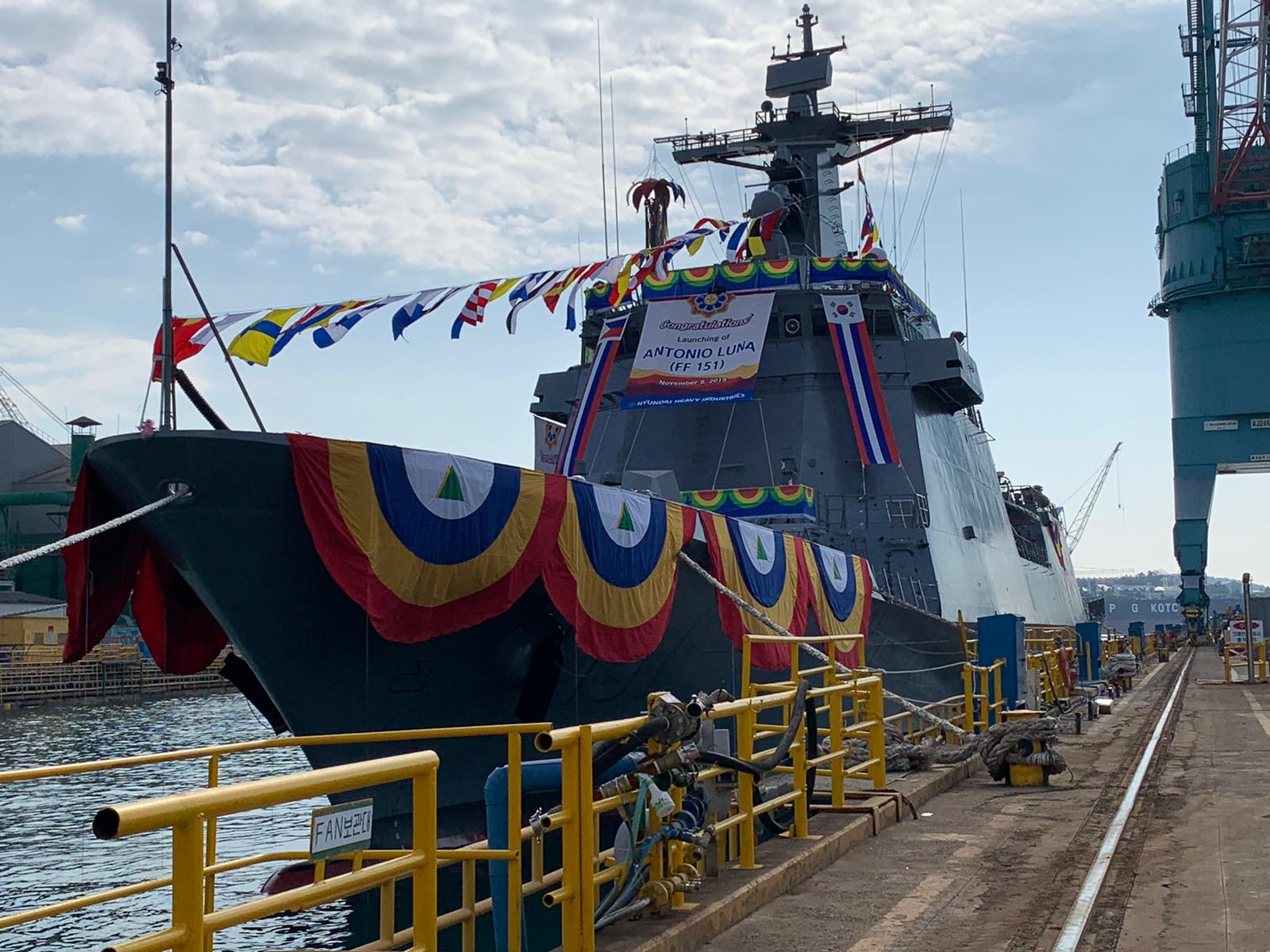 The BRP Antonio Luna (FF-151) was launched in Ulsan, South Korea last November 8, 2019. Philippines Department of National Defense Secretary Delfin Lorenzana, together with officials from the Defense Acquisition Program Administration of Korea, led the launching ceremony at the Hyundai Heavy Industries (HHI) shipyard.